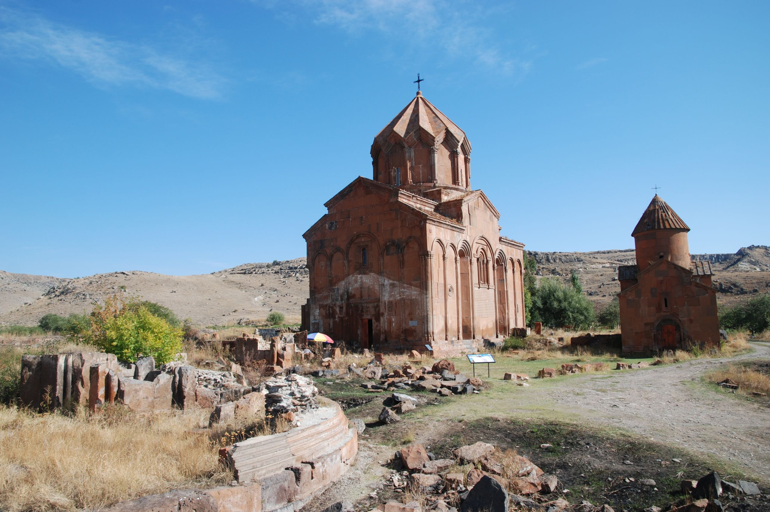 Marmashen, churches from west